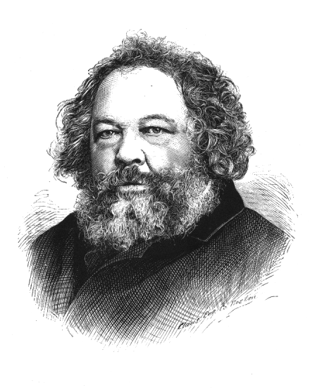 Mikhail Bakunin on a woodcut.